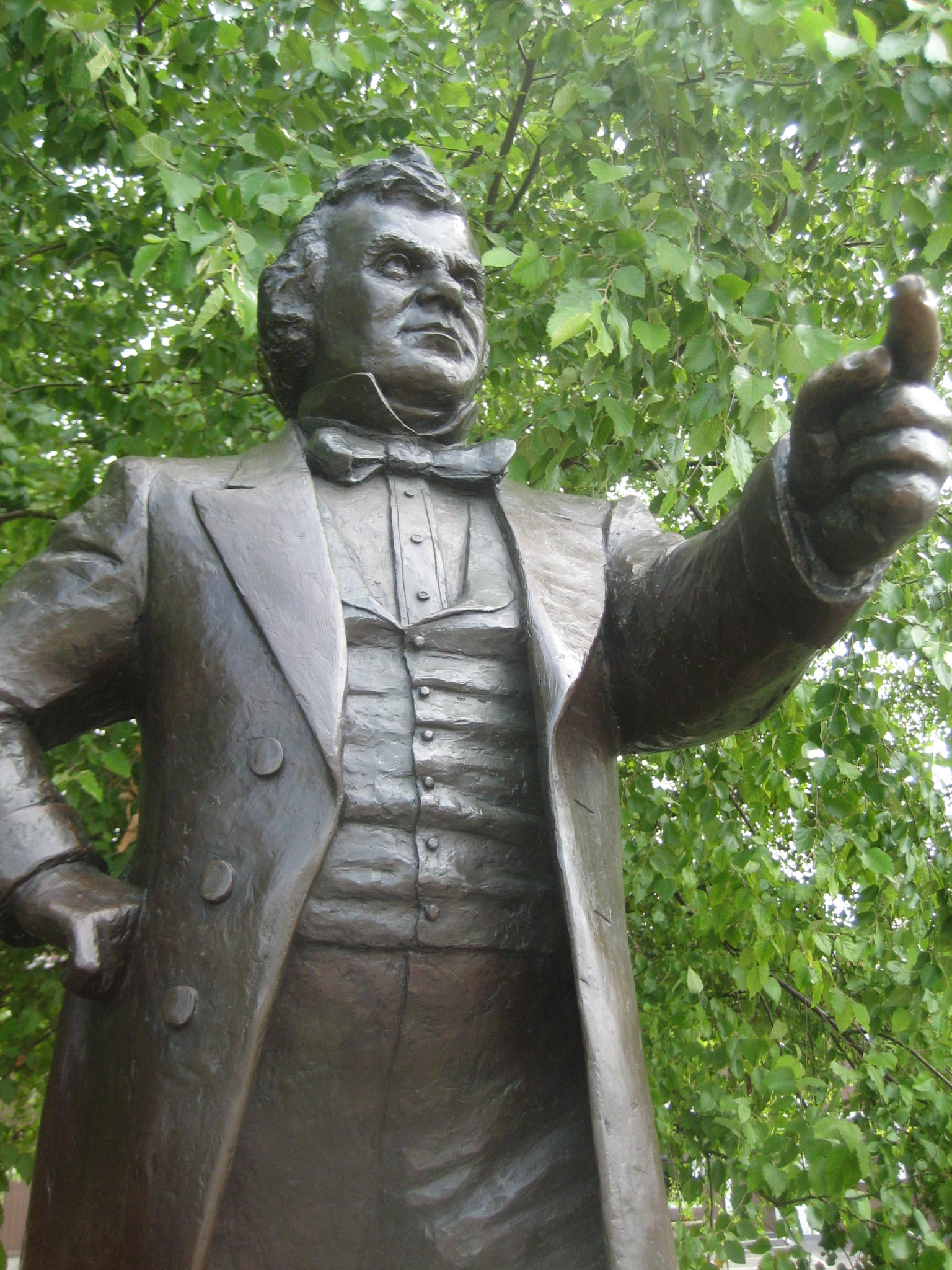 "Lincoln and Douglas" (1992), by Lily Tolpo, Debate Square, site of second debate between Abraham Lincoln and Stephen A. Douglas in 1858. Freeport, Illinois, USA.